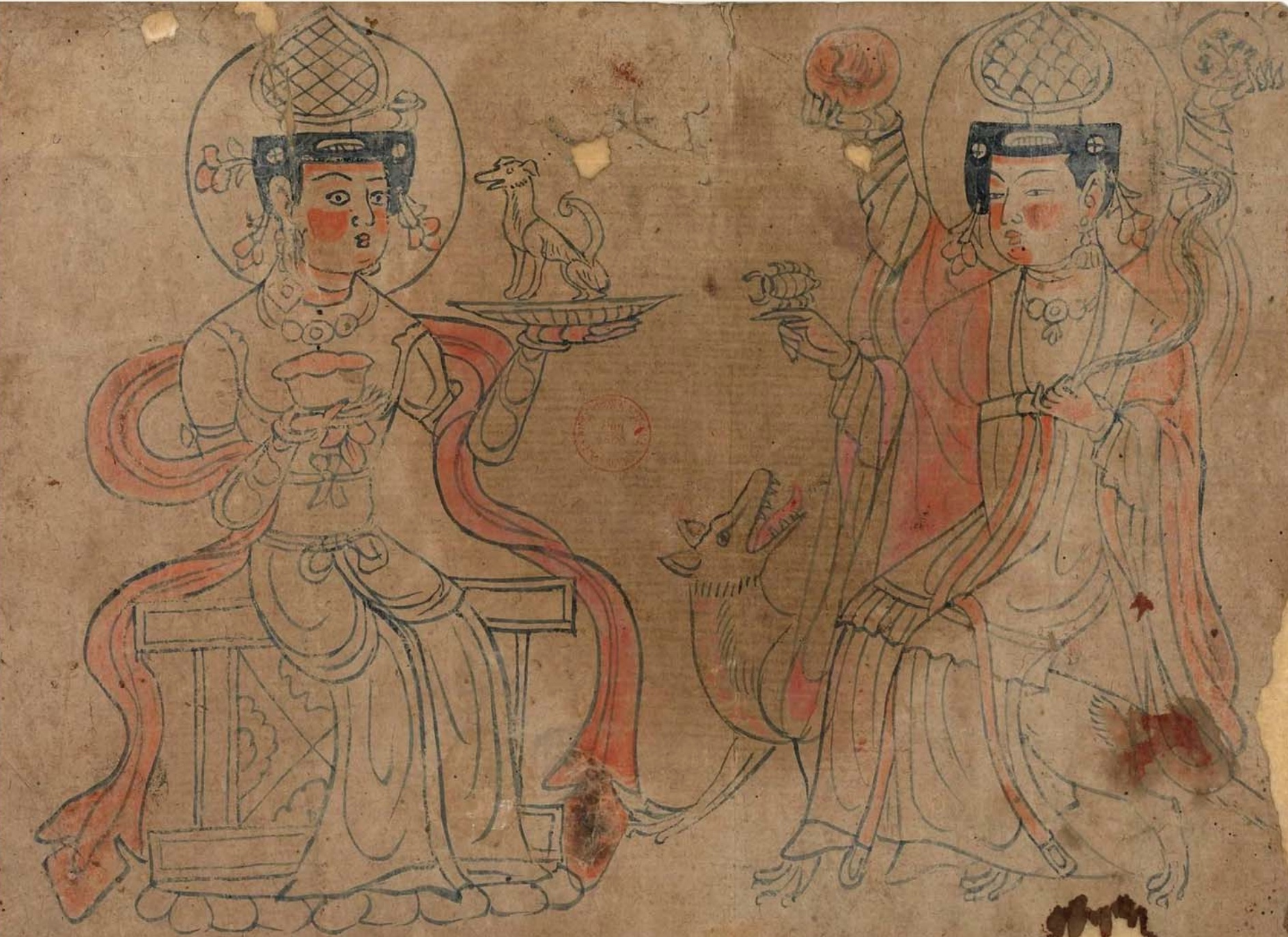 Sogdian Deities: Daēnā and Nanā, a line drawing sketch from Tunhwang preserved in the Bibliothèque nationale de France.